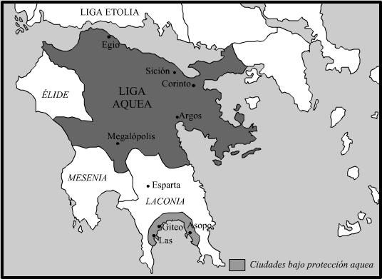 Achaean League 194 BC.